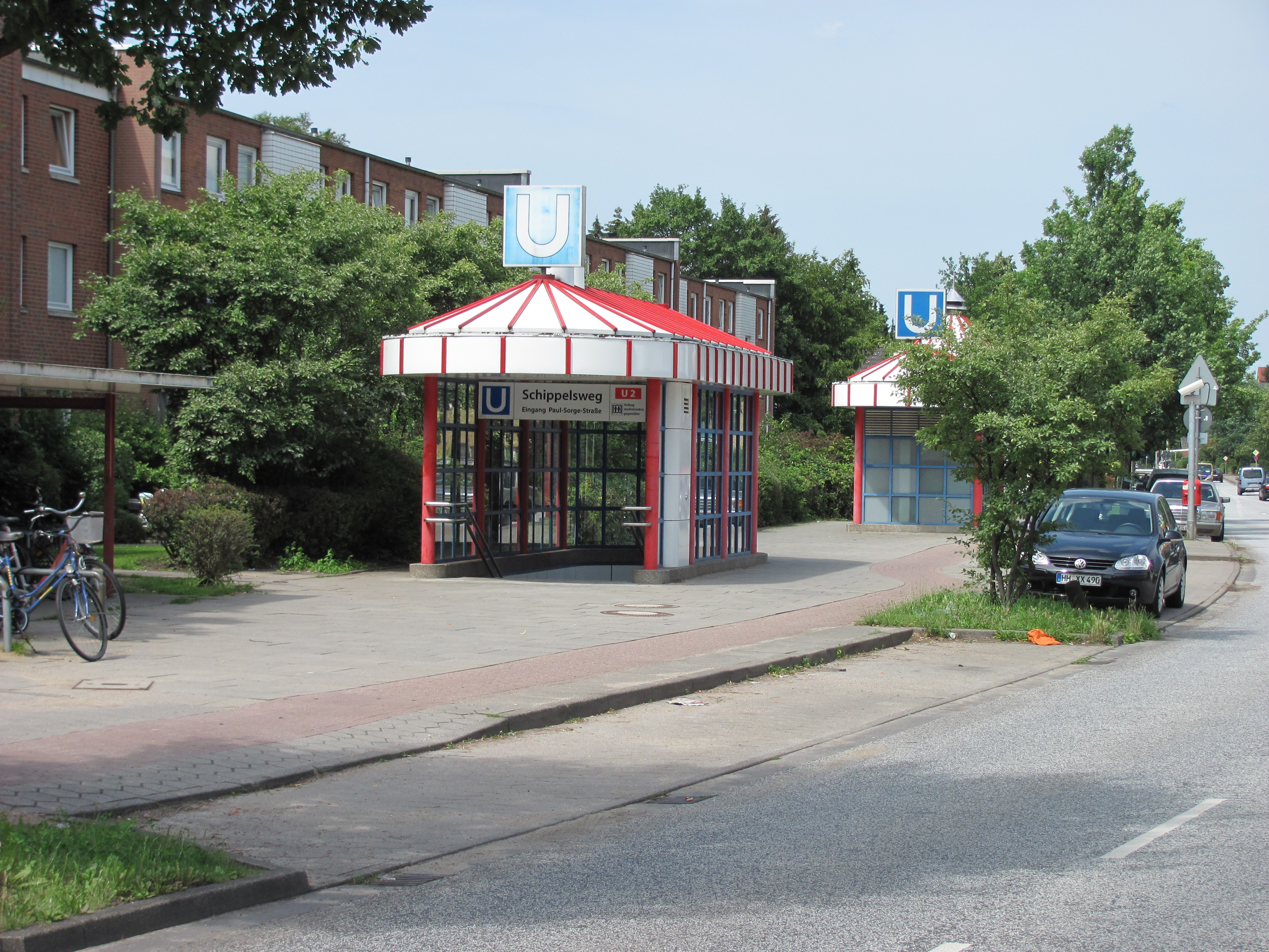 U-Bahn station Schippelsweg in Hamburg, Germany